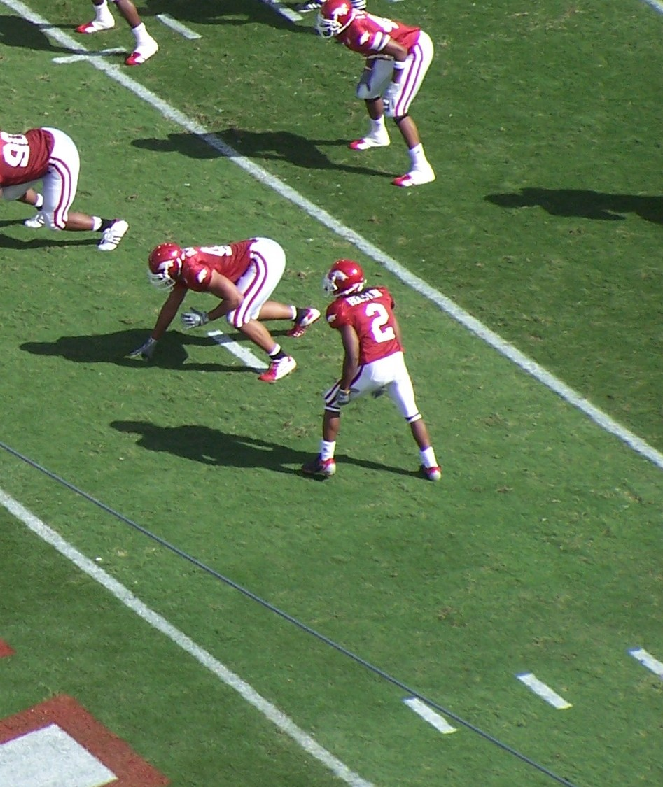 Chris Houston playing for the Arkansas Razorbacks in 2006.